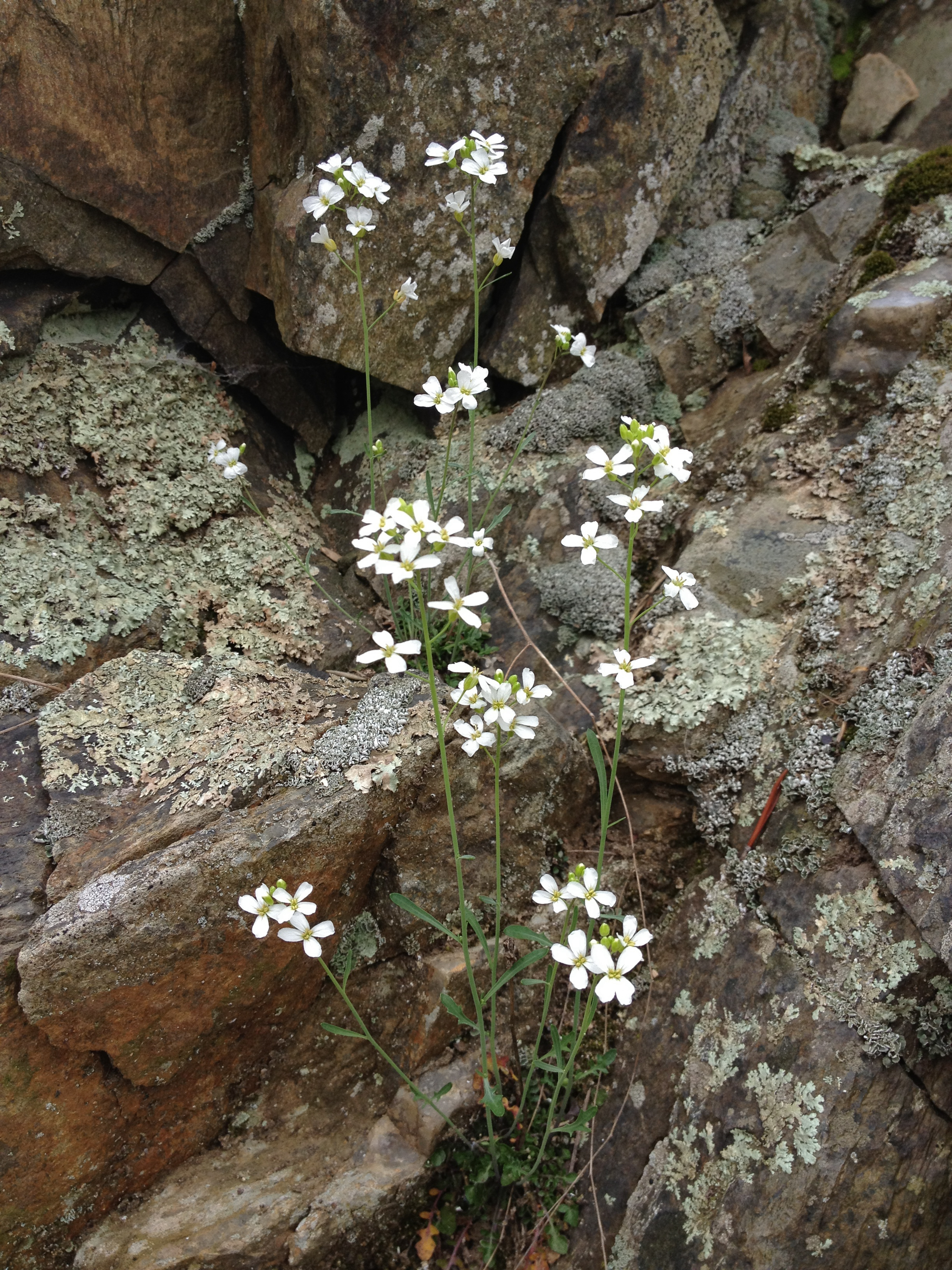 Photograph of Arabidopsis lyrata in flower. This is a native plant growing wild in the C & O Canal National Historic Park, Montgomery county, Maryland, USA. This species is a member of the Brassicaceae family.